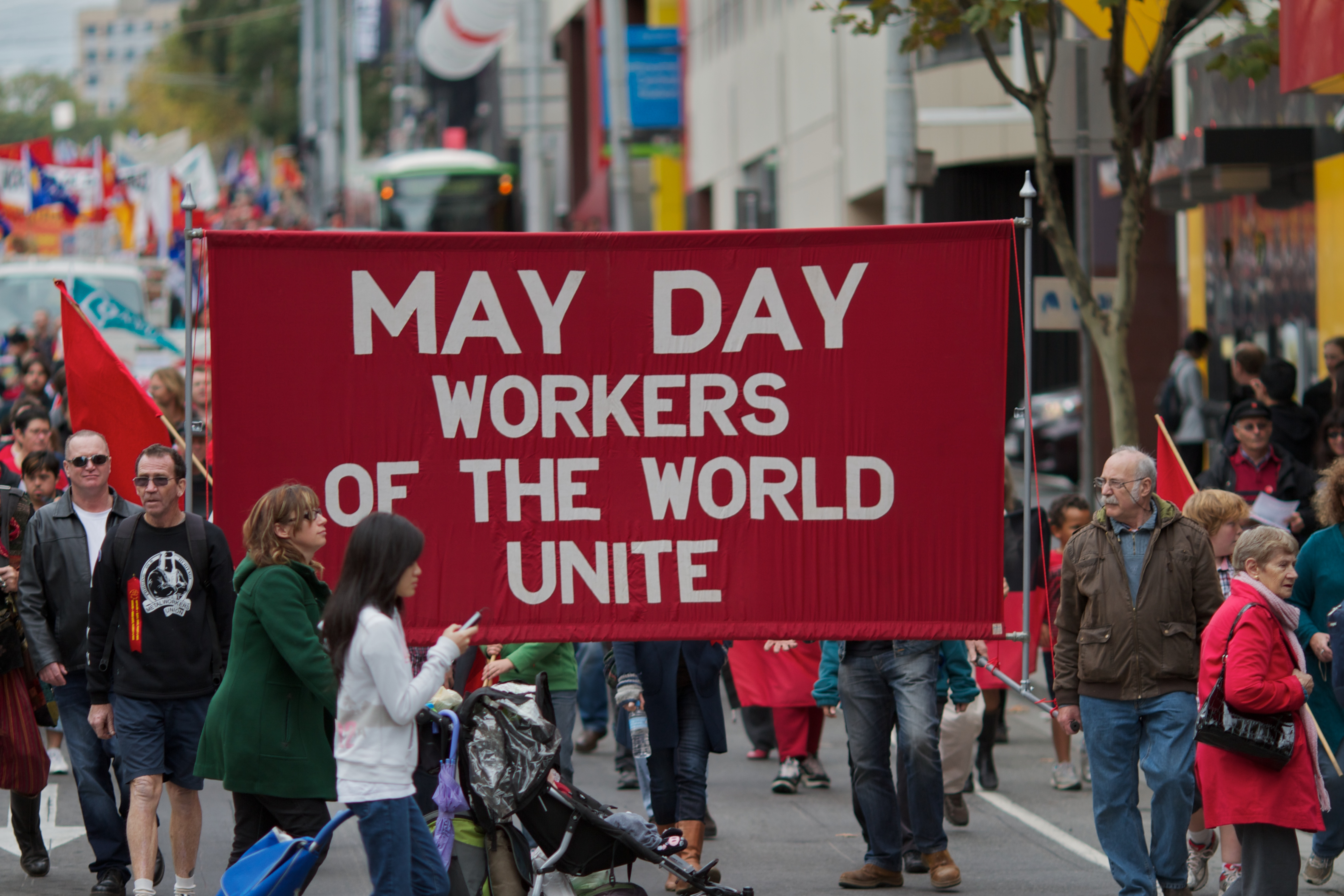 May Day March in Melbourne. Workers of the World Unite.